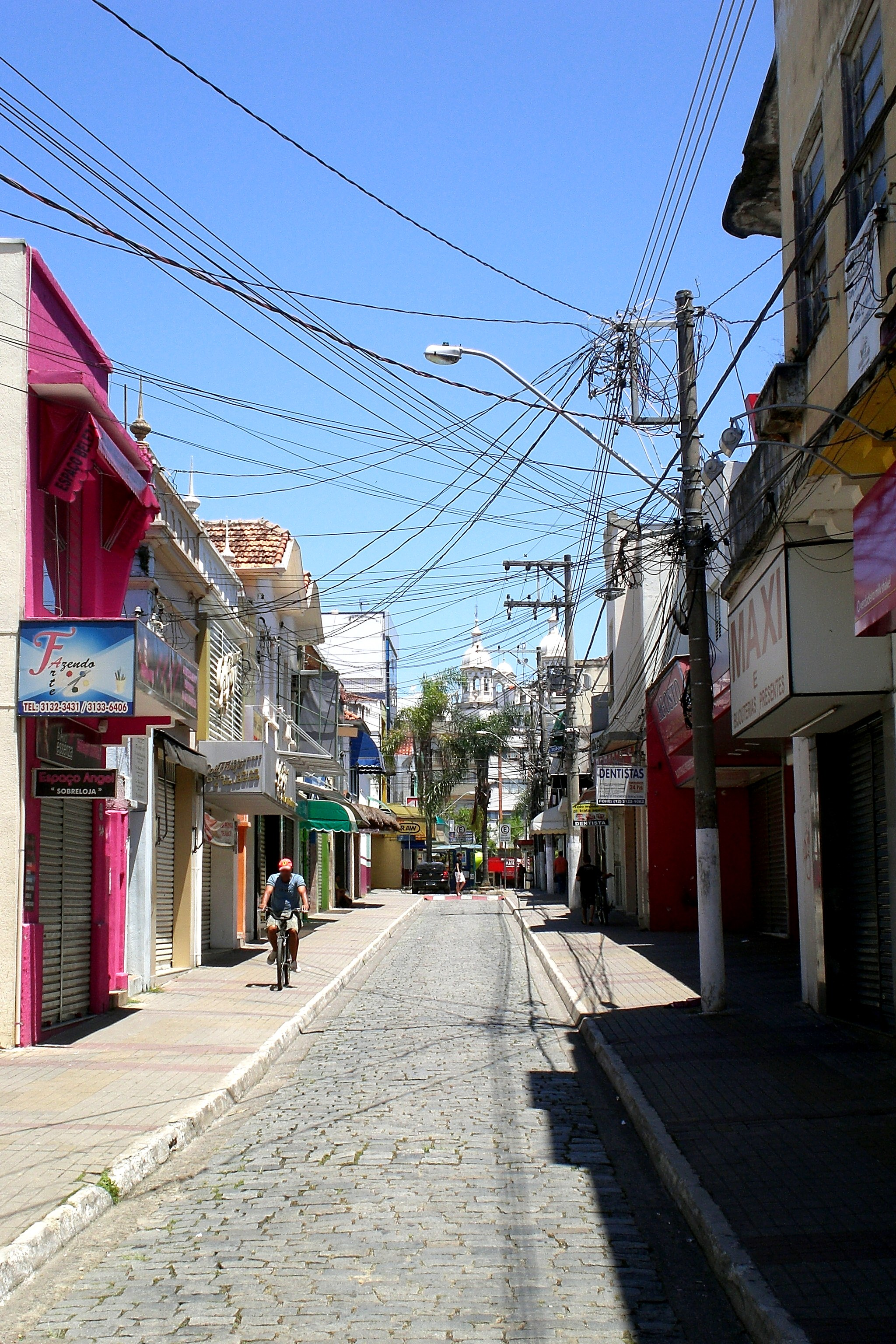 View along Rua Comendador Rodrigues Alves in Guaratinguetá. The shops are all closed, because the picture was taken on a national holiday.